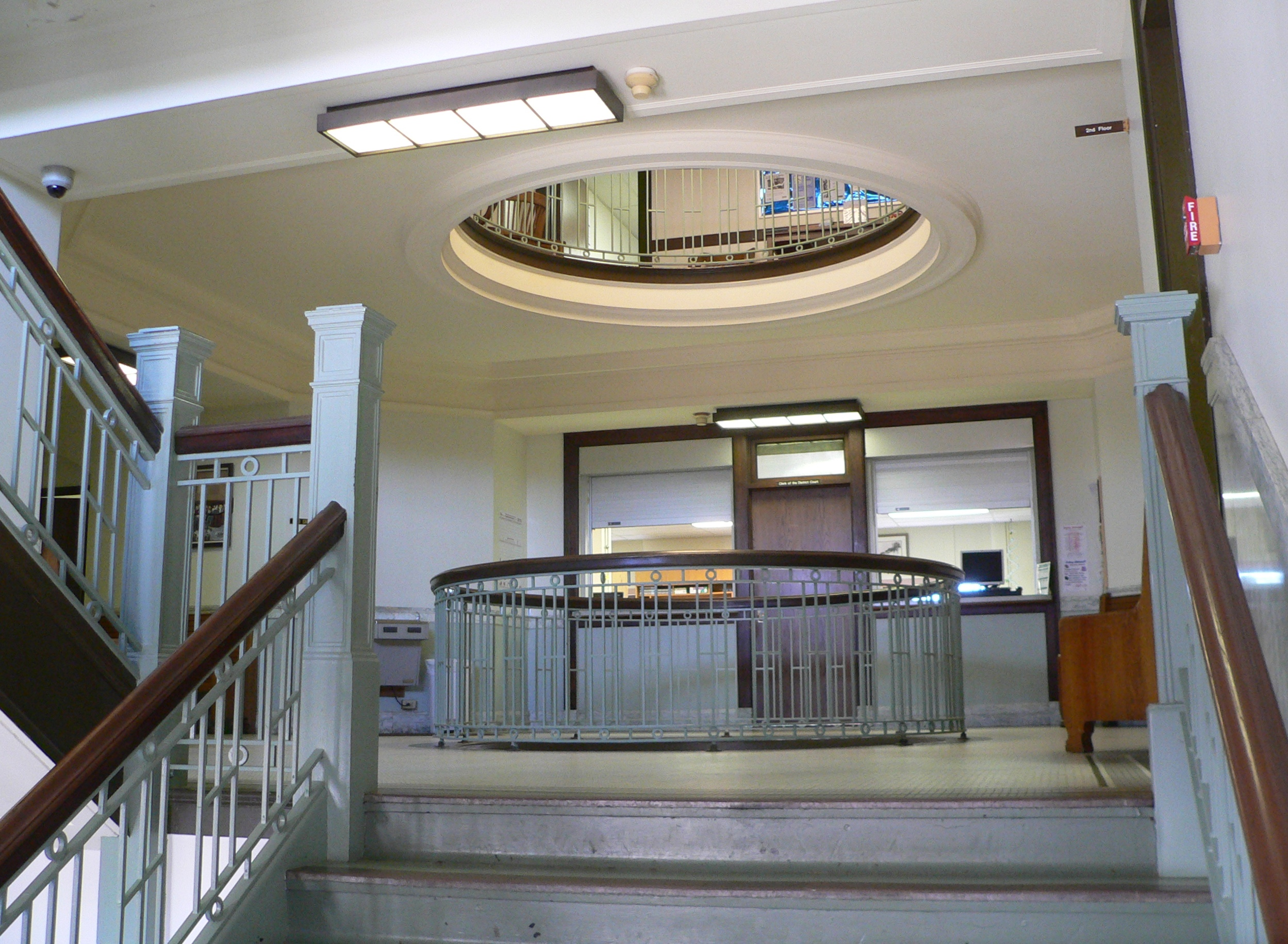 Interior of Scotts Bluff County Courthouse in Gering, Nebraska: looking up the east stairs from the landing between the first and second floors. The Classical Revival building was constructed in 1920. It is listed in the National Register of Historic Places.